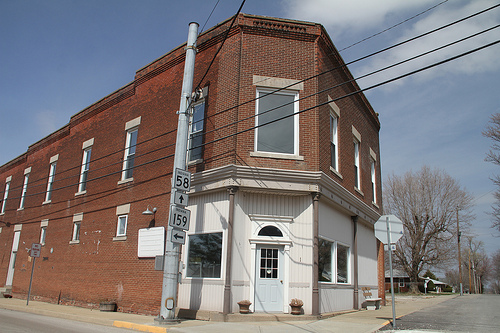 The intersection of Indiana State Road 159 & Indiana State Road 58